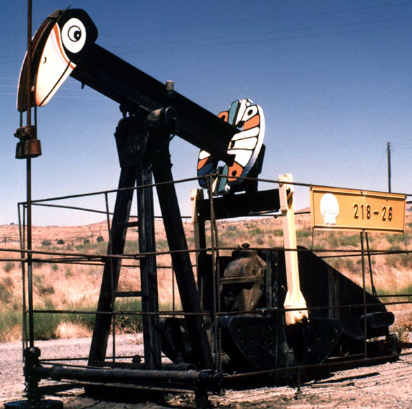 A colourful nodding donkey in the United States.